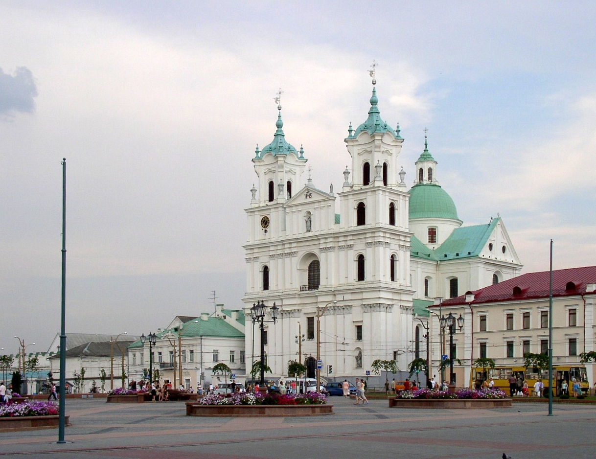 Church of Saint Francis Ksaver. Hrodna, Belarus.